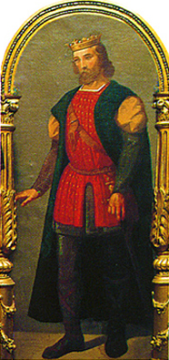 Sancho IV of Navarre